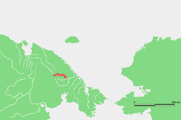 location map